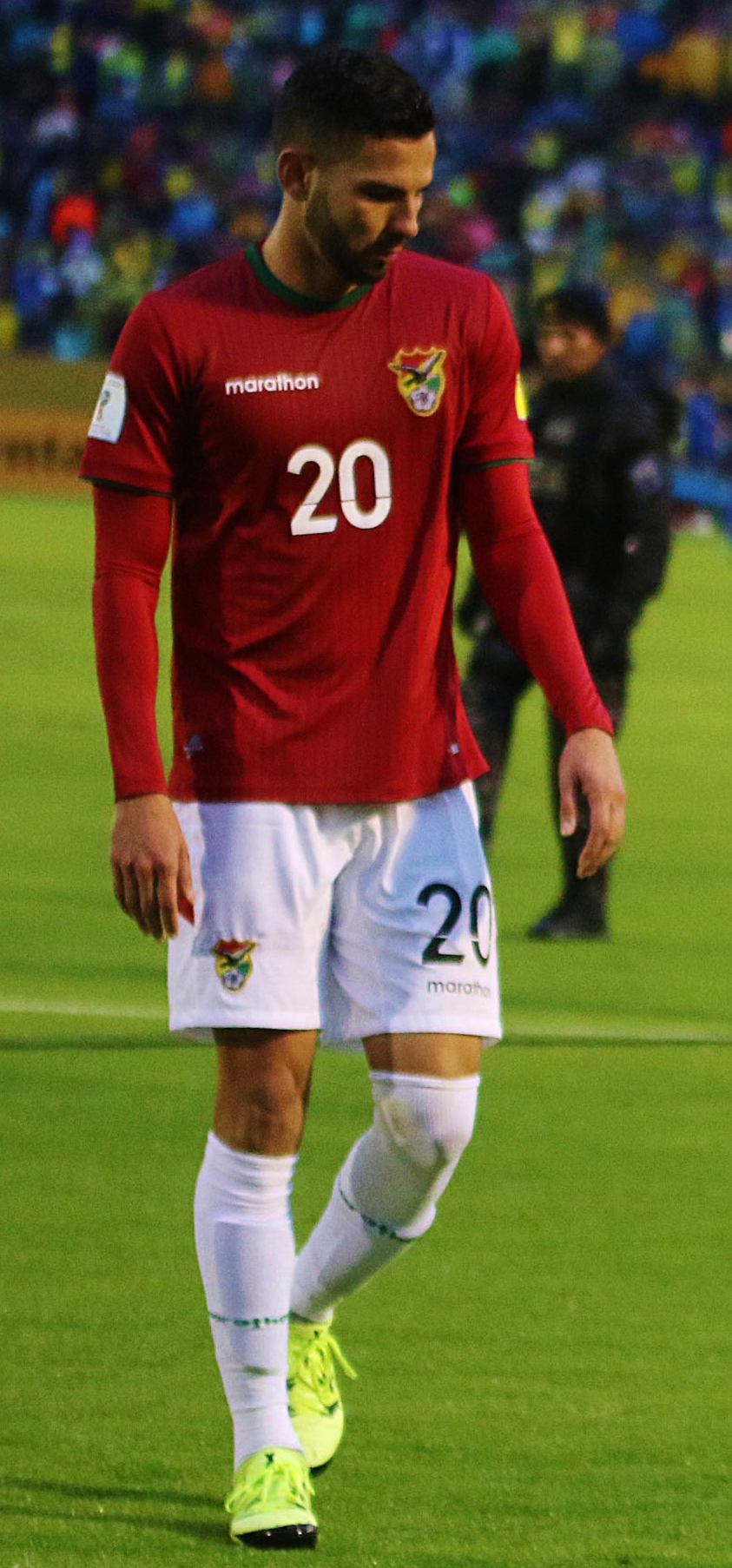 Alejandro Meleán